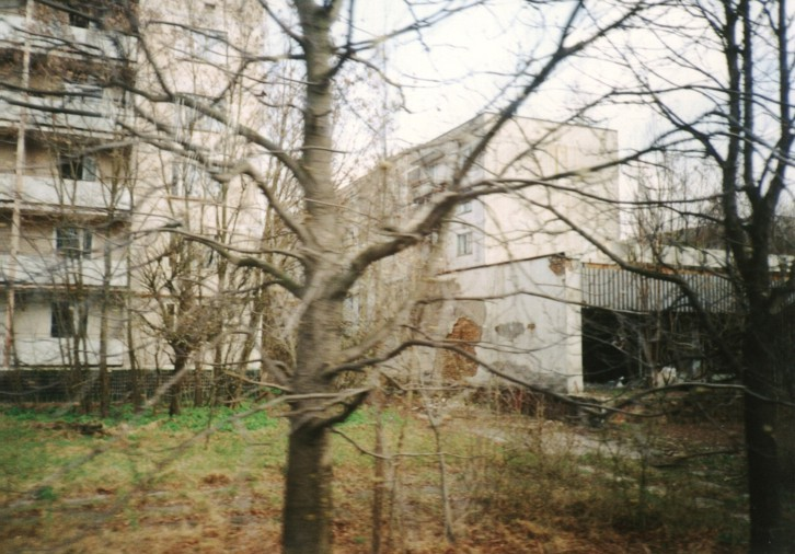 Pripyat, Ukraine abandoned city near Chernobyl.